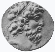 Coin of Demetrius II of Syria. The reverse shows Zeus bearing Nike. The Greek inscription reads ΒΑΣΙΛΕΩΣ ΔΗΜΗΤΡΙΟΥ ΘΕΟΥ ΝΙΚΑΤΟΡΟΣ. The date ΔΠΡ is year 184 of the Seleucid era, corresponding to 129–128 BC.